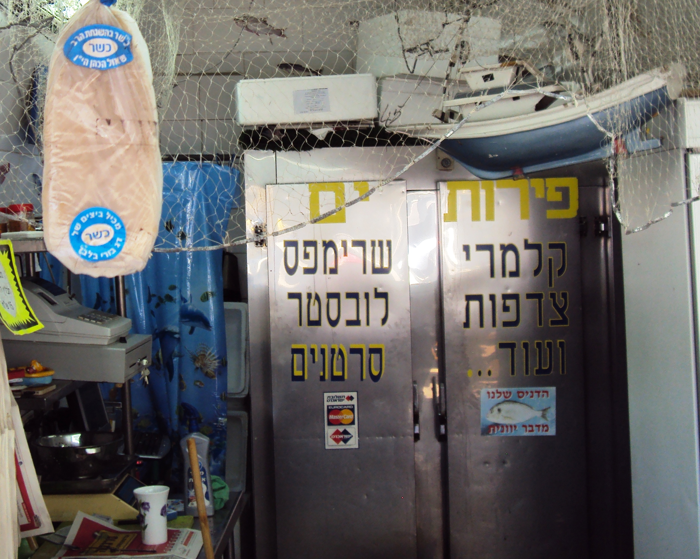 Israel, Jaffa - (via Google translate) Fish with the seal of approval along with non-kosher lobster